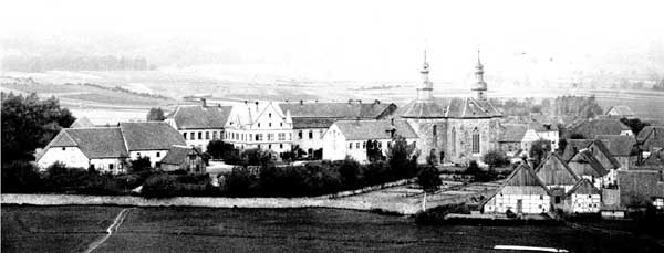 Convent buildings, Willebadessen